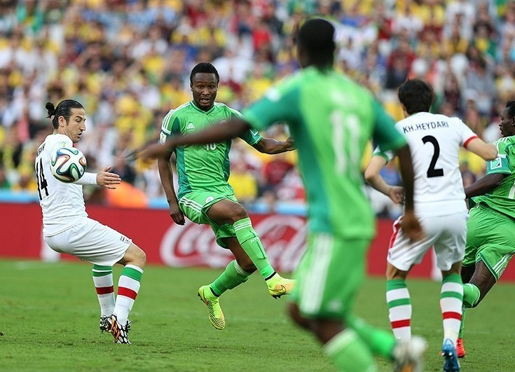 Iran and Nigeria match at the FIFA World Cup